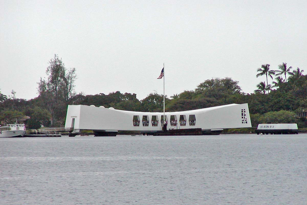 Photo of Arizona Memorial at Pearl Harbor